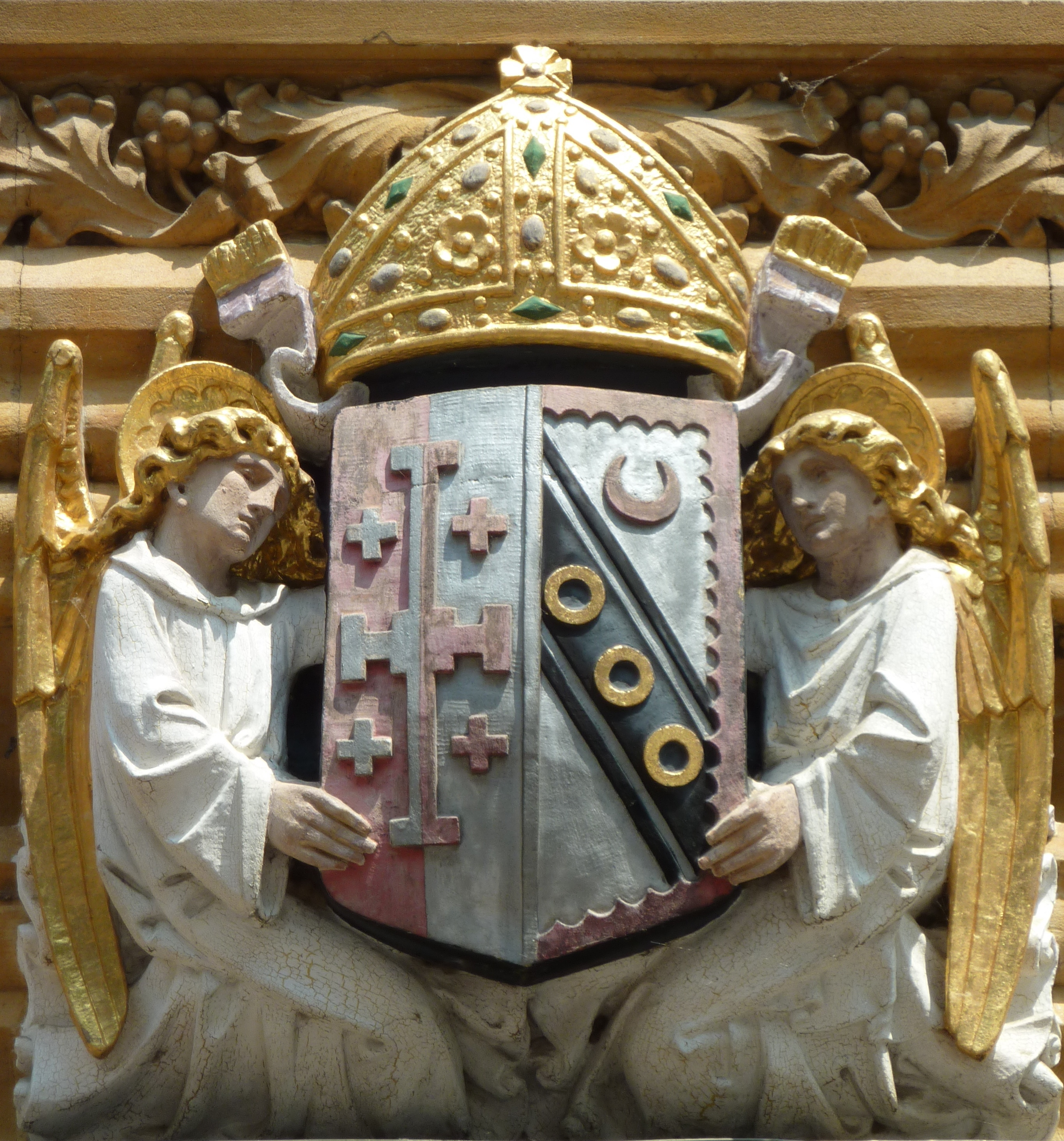 Selwyn College Heraldic Coat of Arms over Main Gate.jpg